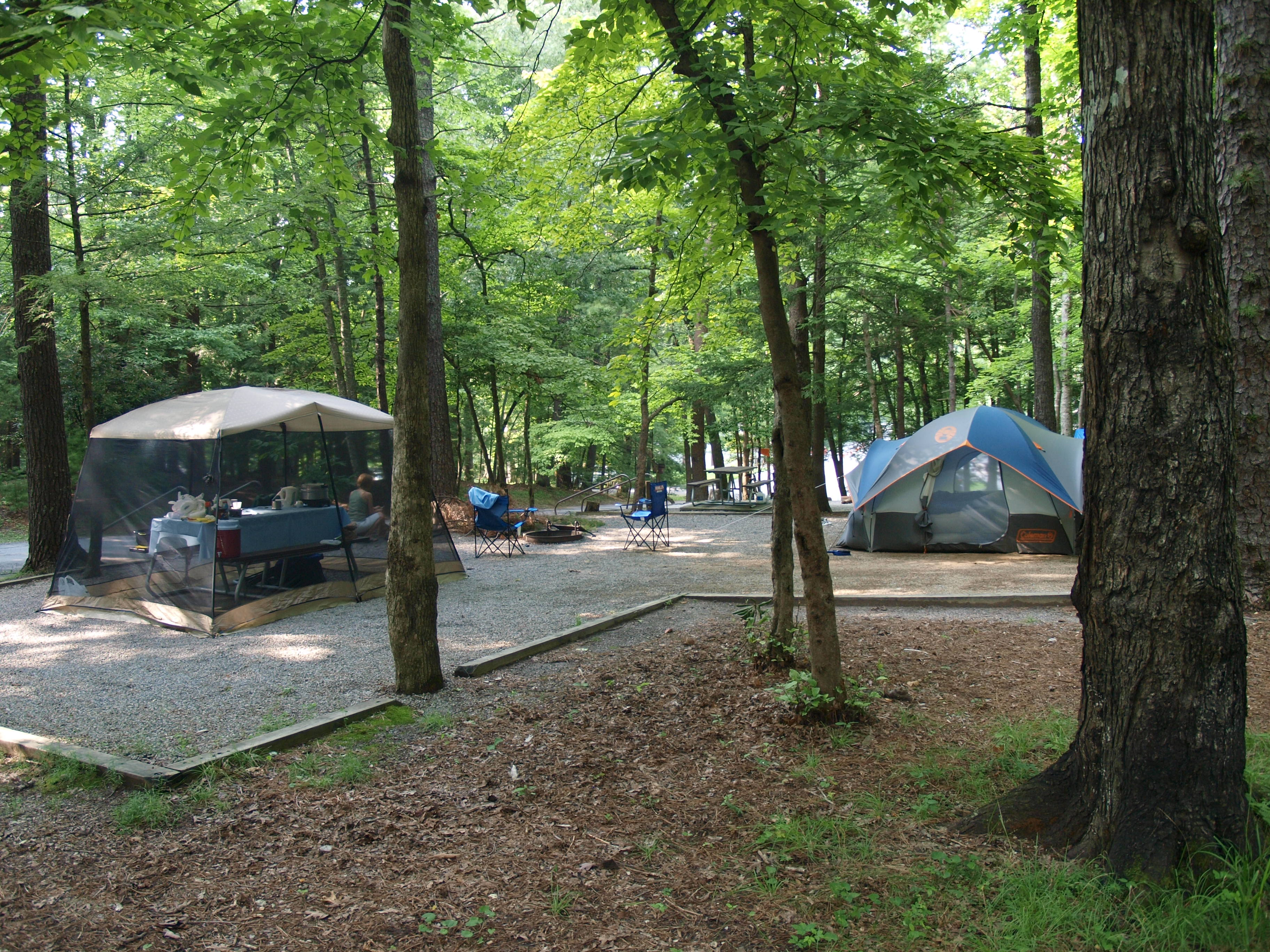 Cades Cove camping site, Great Smoky Mountains National Park